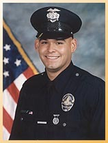 Ricardo Lizarraga, LAPD